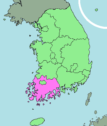 area map of Jeollanam